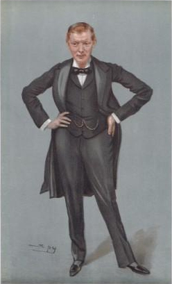 Caricature of Winston Churchill. Caption read "Winston".